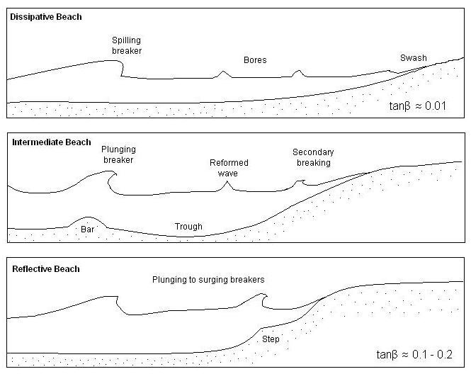 Beach classification developed by Wright and Short (1983). The classification depends on the angle of the beach slope \beta and on the wave condition.